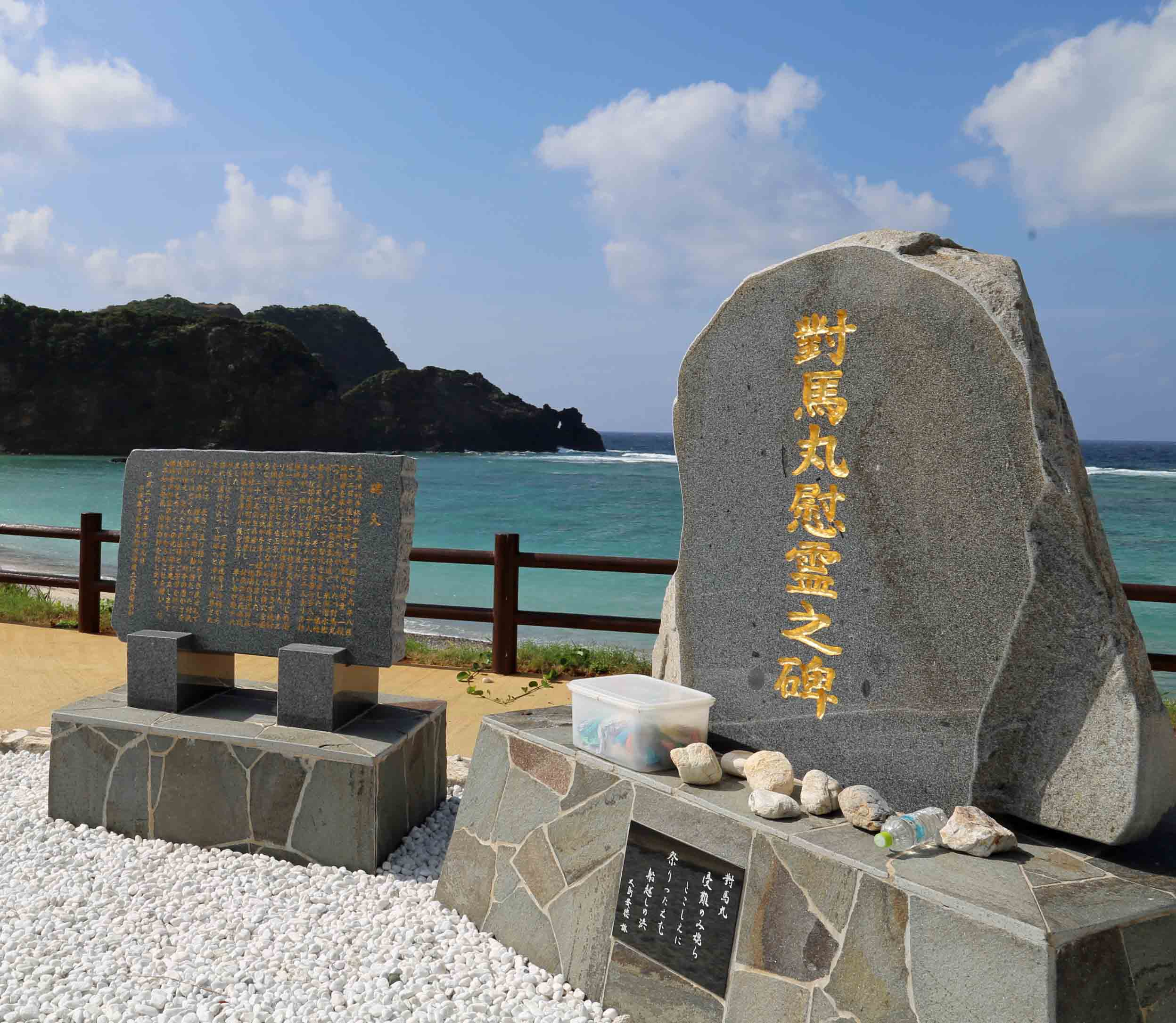 tusimamaru_ireihi